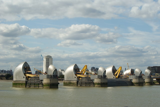 Thames Barrier Part of the barrier, with pier No.6 to the left, and pier No.3 to the right. The gate is raised between piers No.5 and 4.